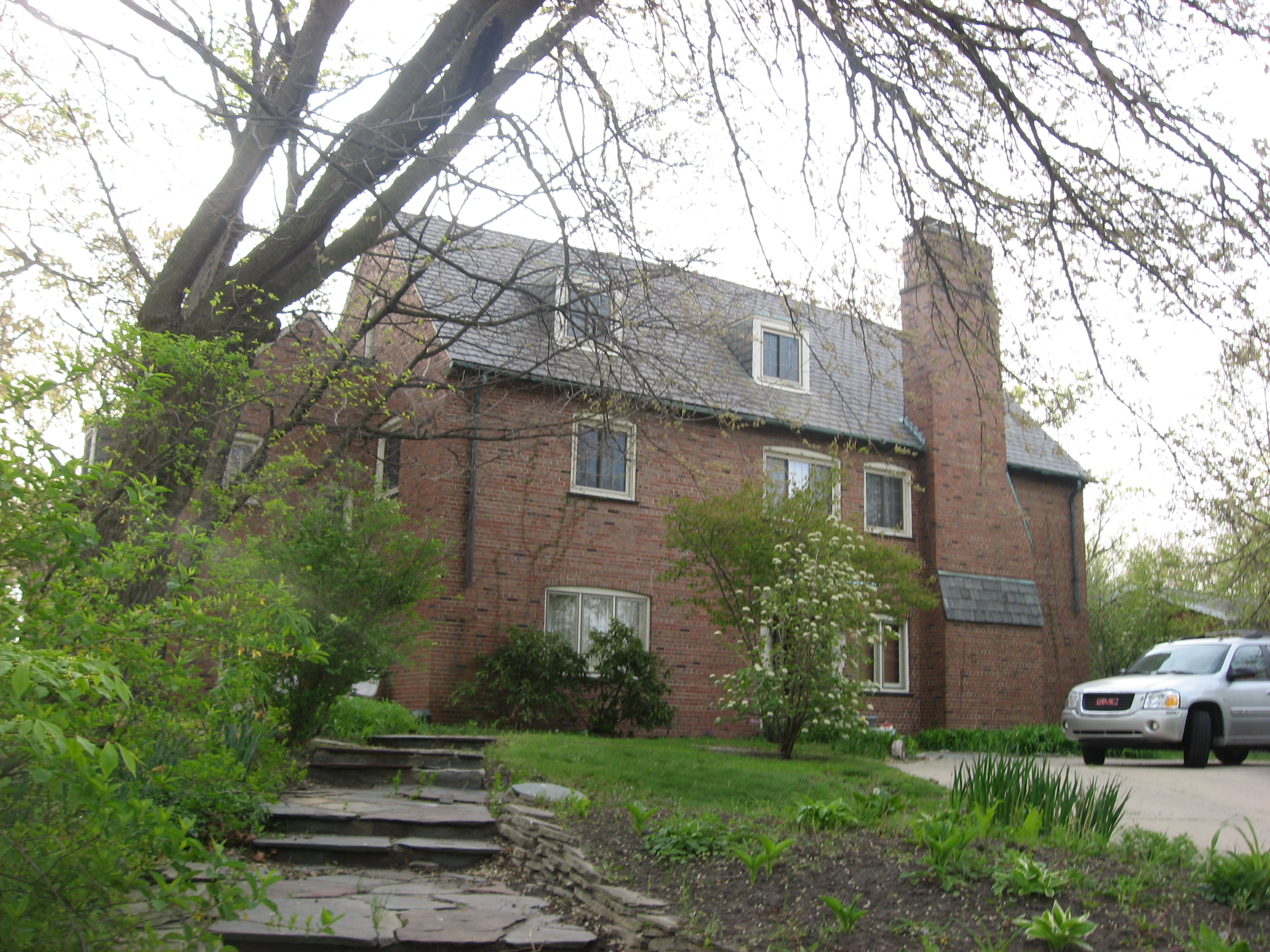 Street view of the Morse Dell Plain House and Garden, located at 7109 Knickerbocker Parkway in Hammond, Indiana, United States. Built in 1923, it is listed on the National Register of Historic Places.